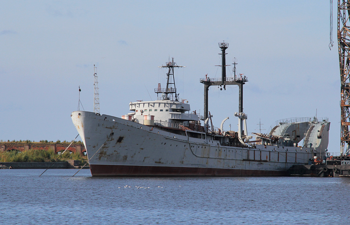 Karpaty at quay Vostochnaya Ust-Rogatka, Baltic Sea, Gulf of Finland, Neva Bay, Srednyaya Gavan, Saint Petersburg, Kronstadt 24 September 2010